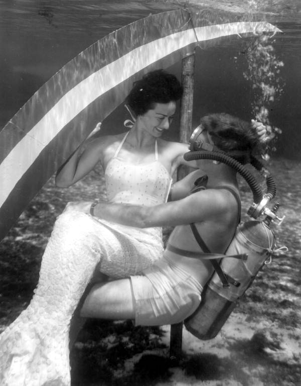 Diver holds onto a mermaid at Rainbow Springs - Dunellon, Florida